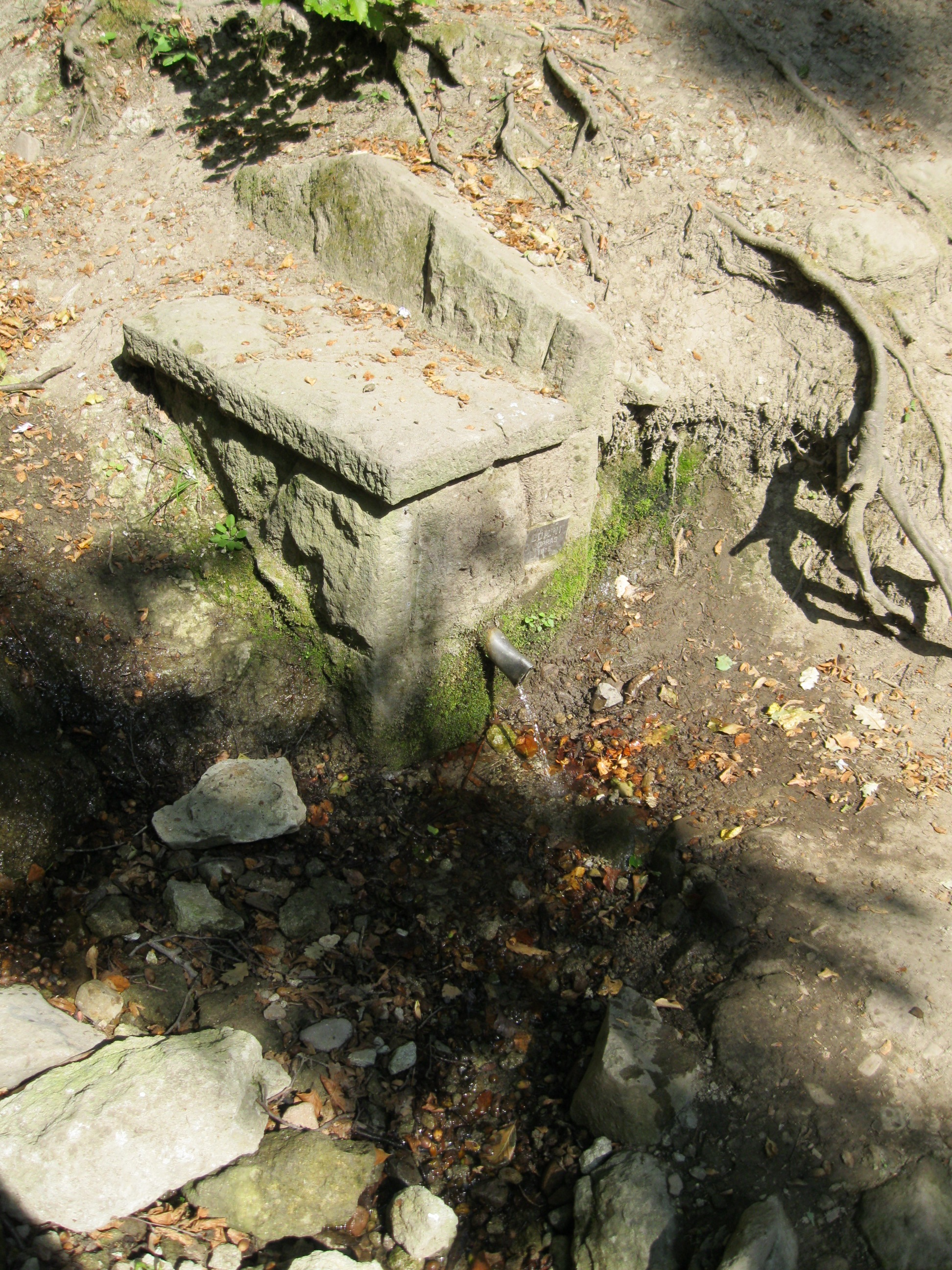 The Domini Spring in Visegrád Mountains